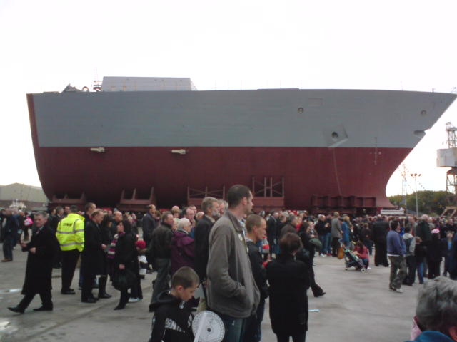 Part of HMS Duncan (D37) at Govan